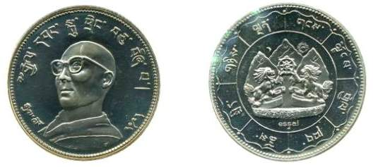 Medal of 14th Dalai Lama, dated 1966